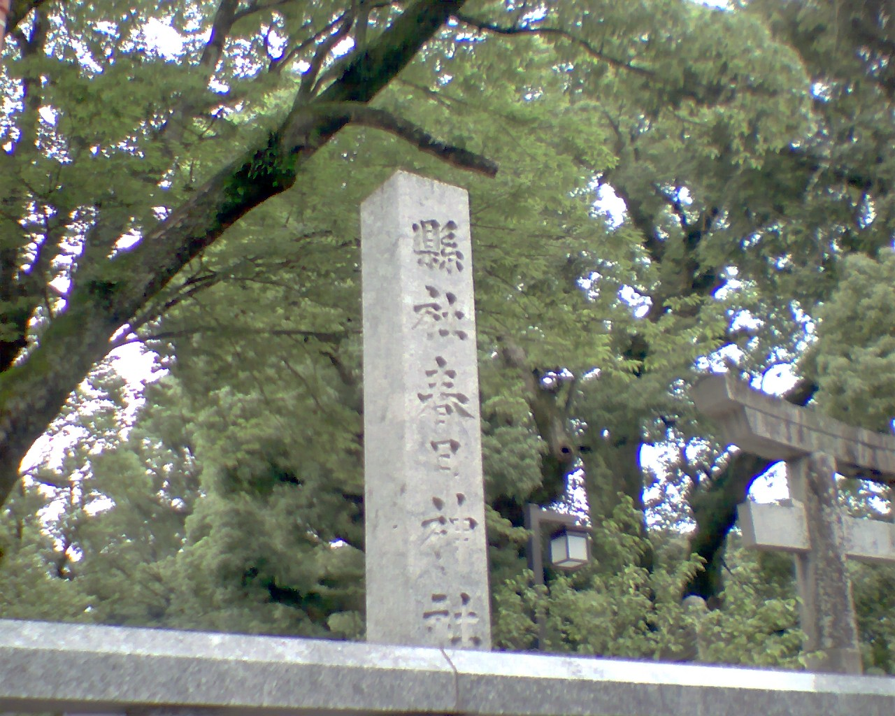 This photograph is a stony tower which on a shrine named 'Kasuga shrine' (or 'Kasuga jinja' , ja : '春日神社'), in the Kasuga city, Fukuoka prefecture, Japan.Tradition says that this shrine originated with onshrine in Amenokoyaneno-mikoto by the Prince Nakanooe (Emperor Tenchi) long ago, and its famous for the new year's event 'Kasuga no Mukooshi'(ja : '春日の婿押し').